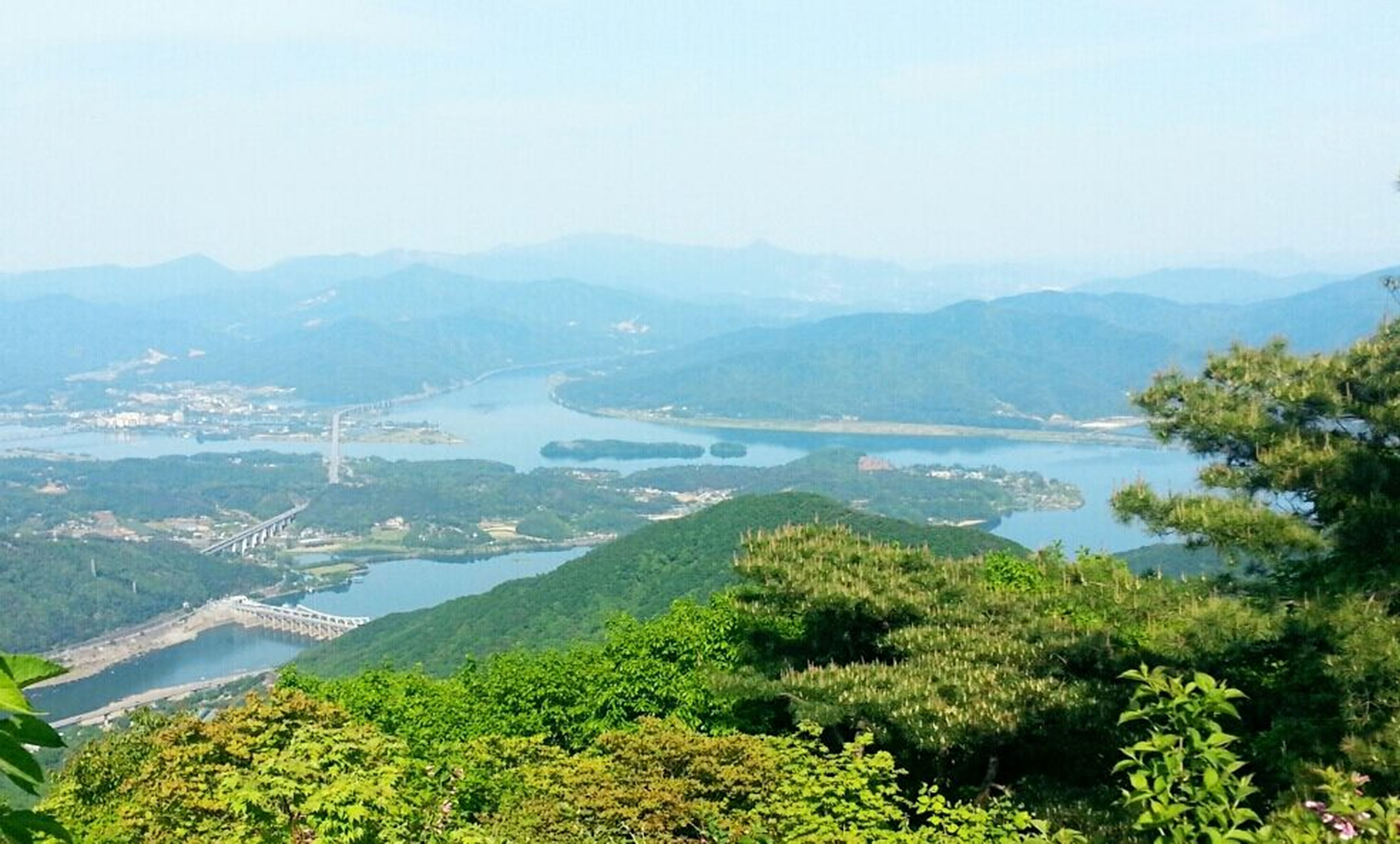 Paldang Dam and Lake Paldang